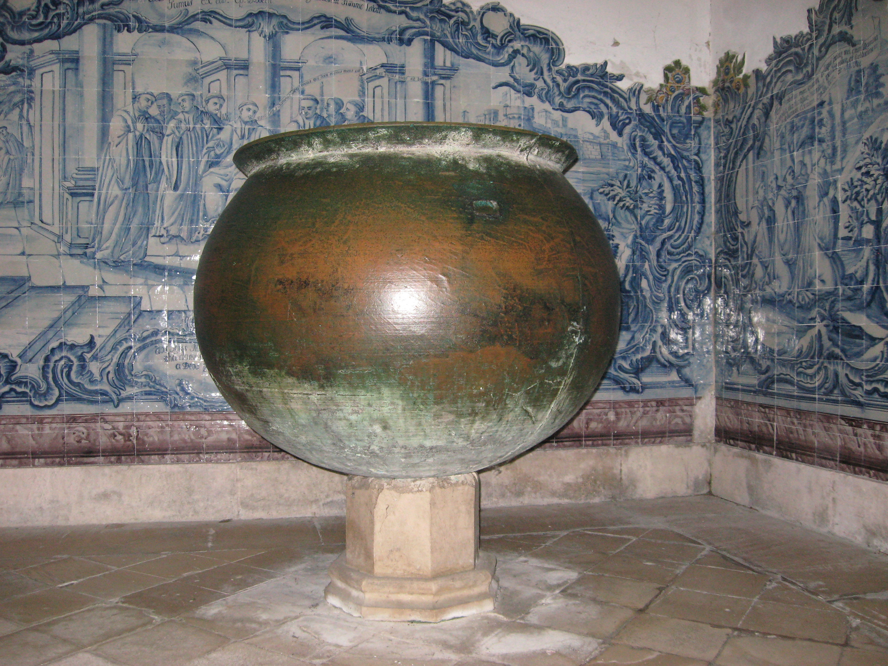 copper-pot, diameter 1.2 m, from the Portuguese-Spanish battle of Aljubarrota 1385